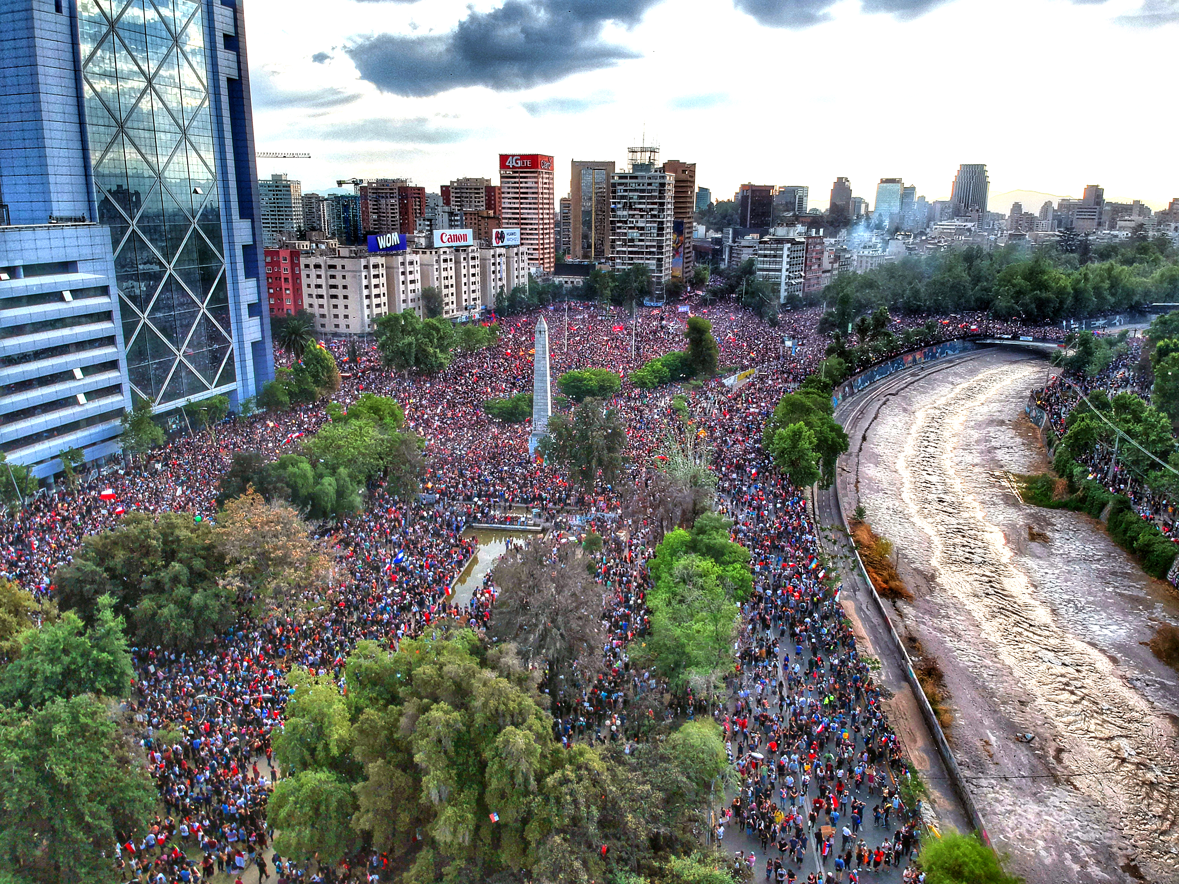 View of the protest towards Plaza Baquedano